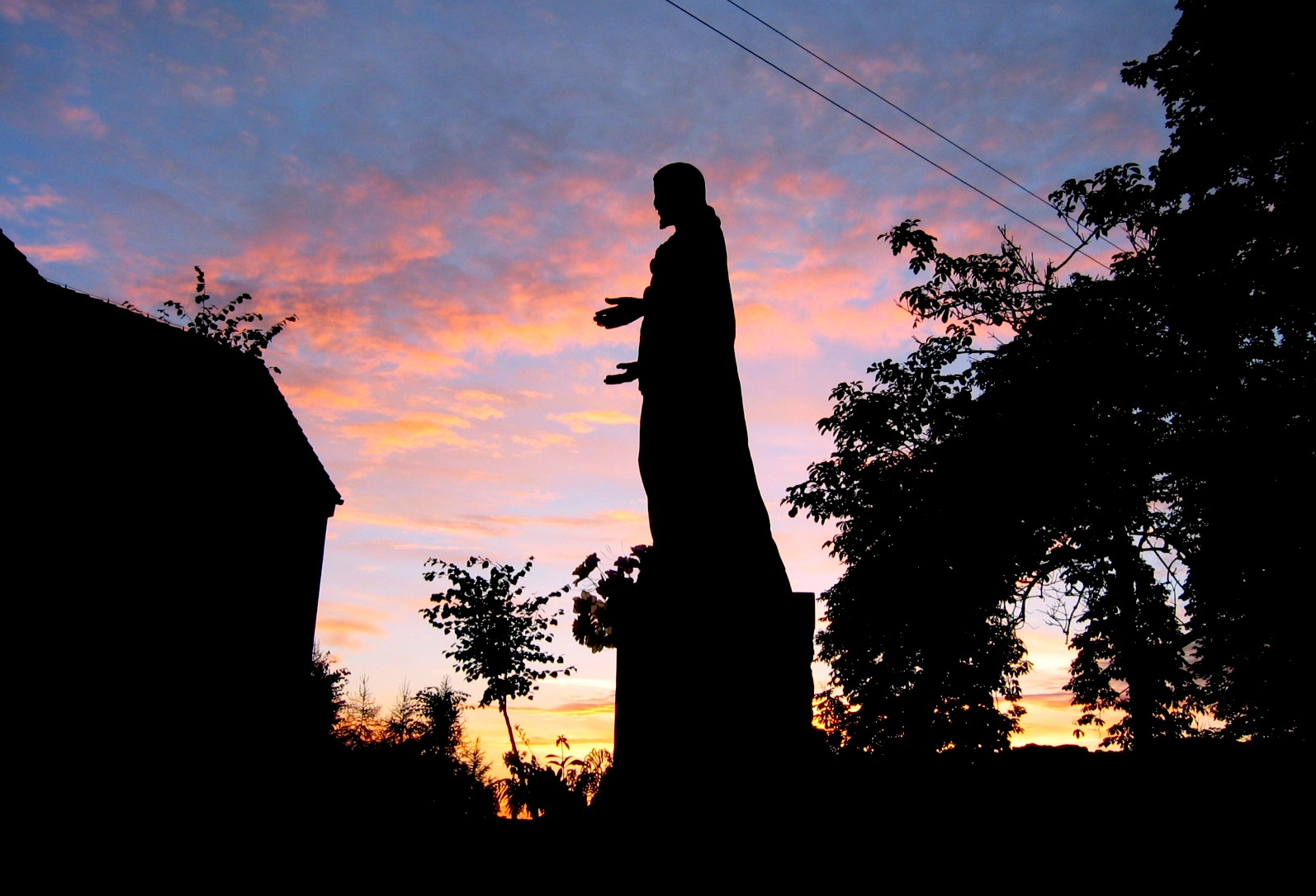 Chrzanów-Kościelec, a statue of Jesus Christ